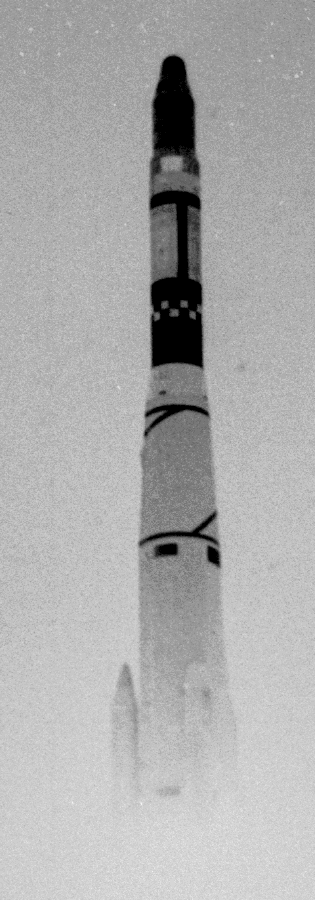 Launch of Thor SLV-2A Agena D with Corona 66 (Jun. 27, 1963)